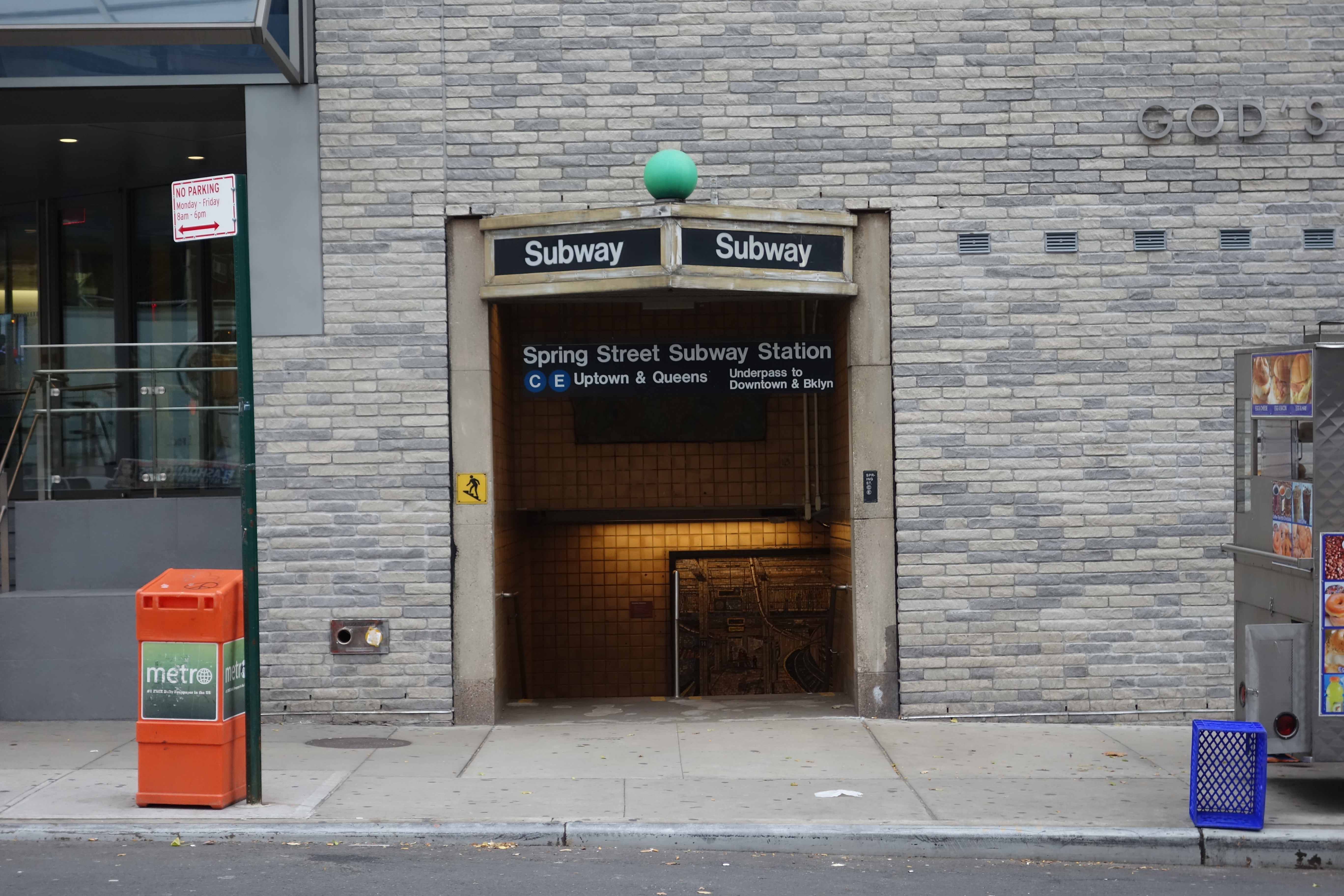 The entrance to the Spring Street IND subway station inside the Michael Kors Building (166 Sixth Avenue), at the northeast corner of 6th Avenue and Spring Street in SoHo / Hudson Square, Manhattan.